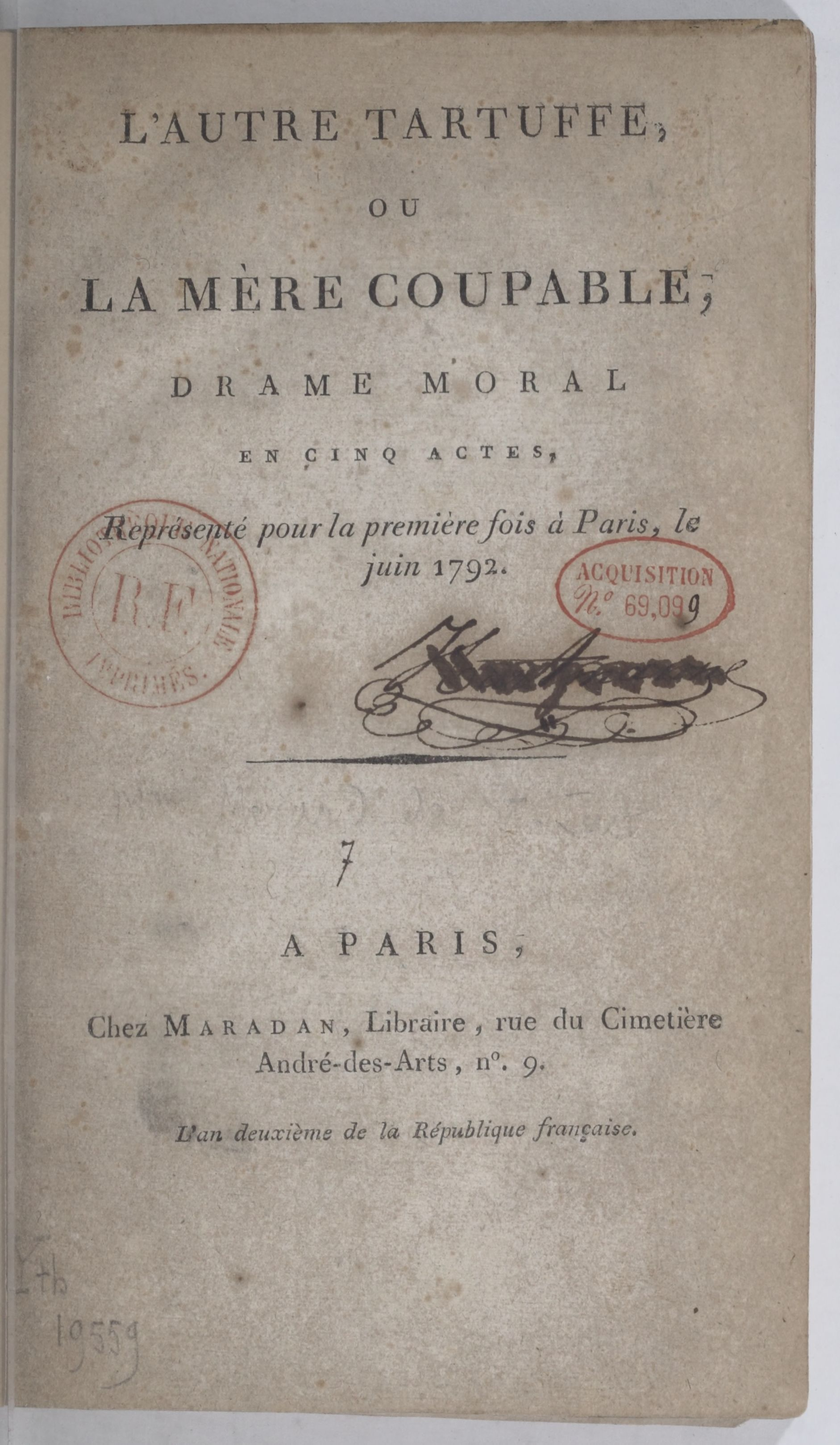 Title page of the Bibliothèque nationale de France copy of L'Autre tartuffe; ou la Mère coupable, usually rendered in English as The Guilty Mother, the third of the Figaro plays by Pierre-Augustin Caron de Beaumarchais